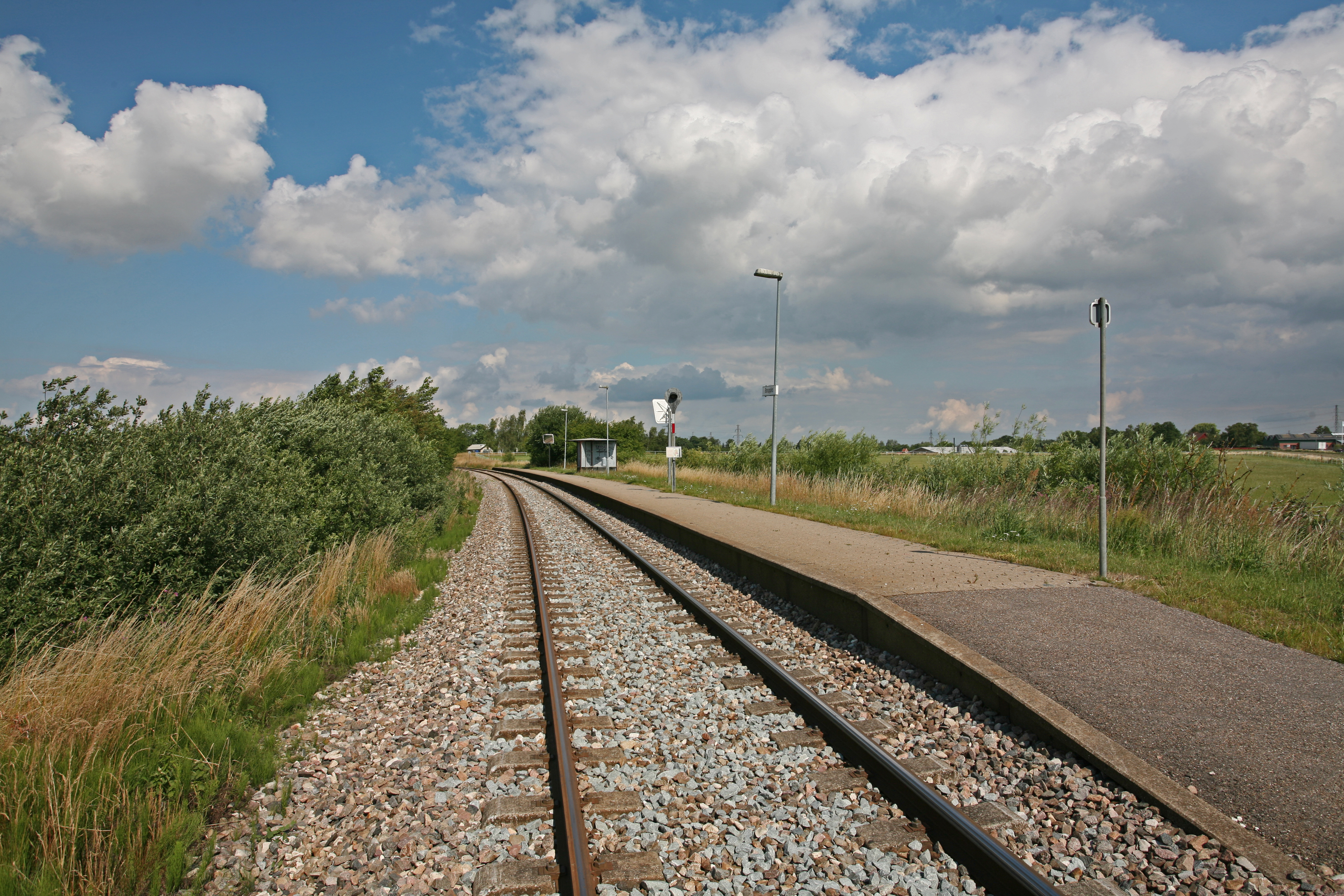 Picture of Borupgård Station (Borup - Denmark)